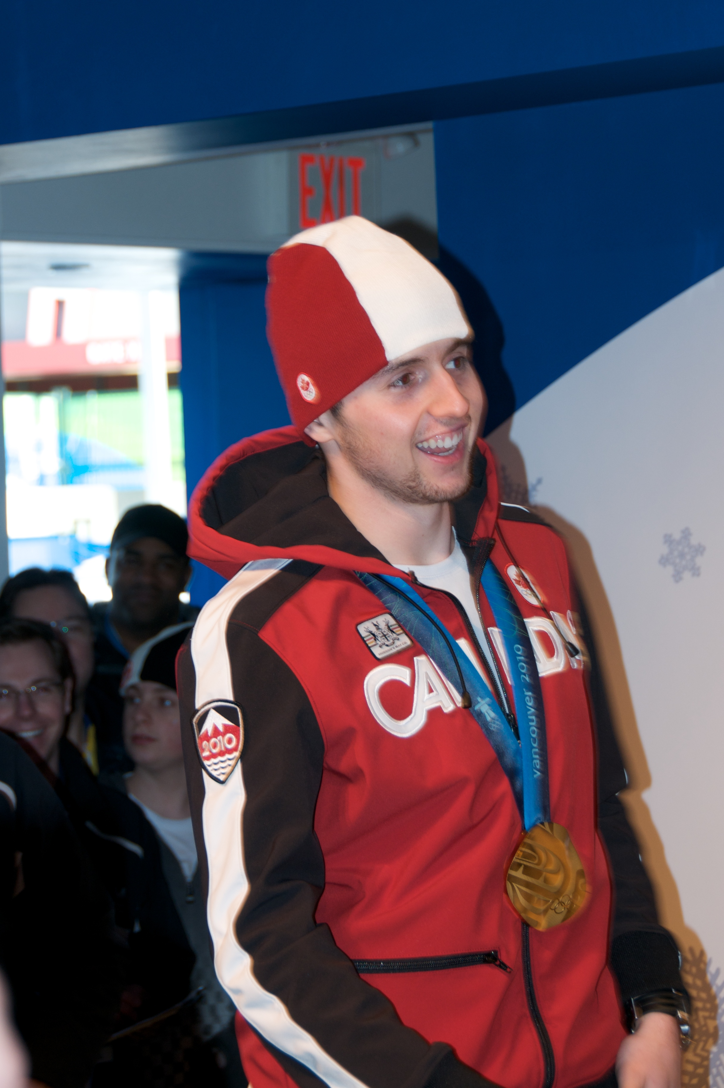 Alexandre Bilodeau with gold medal